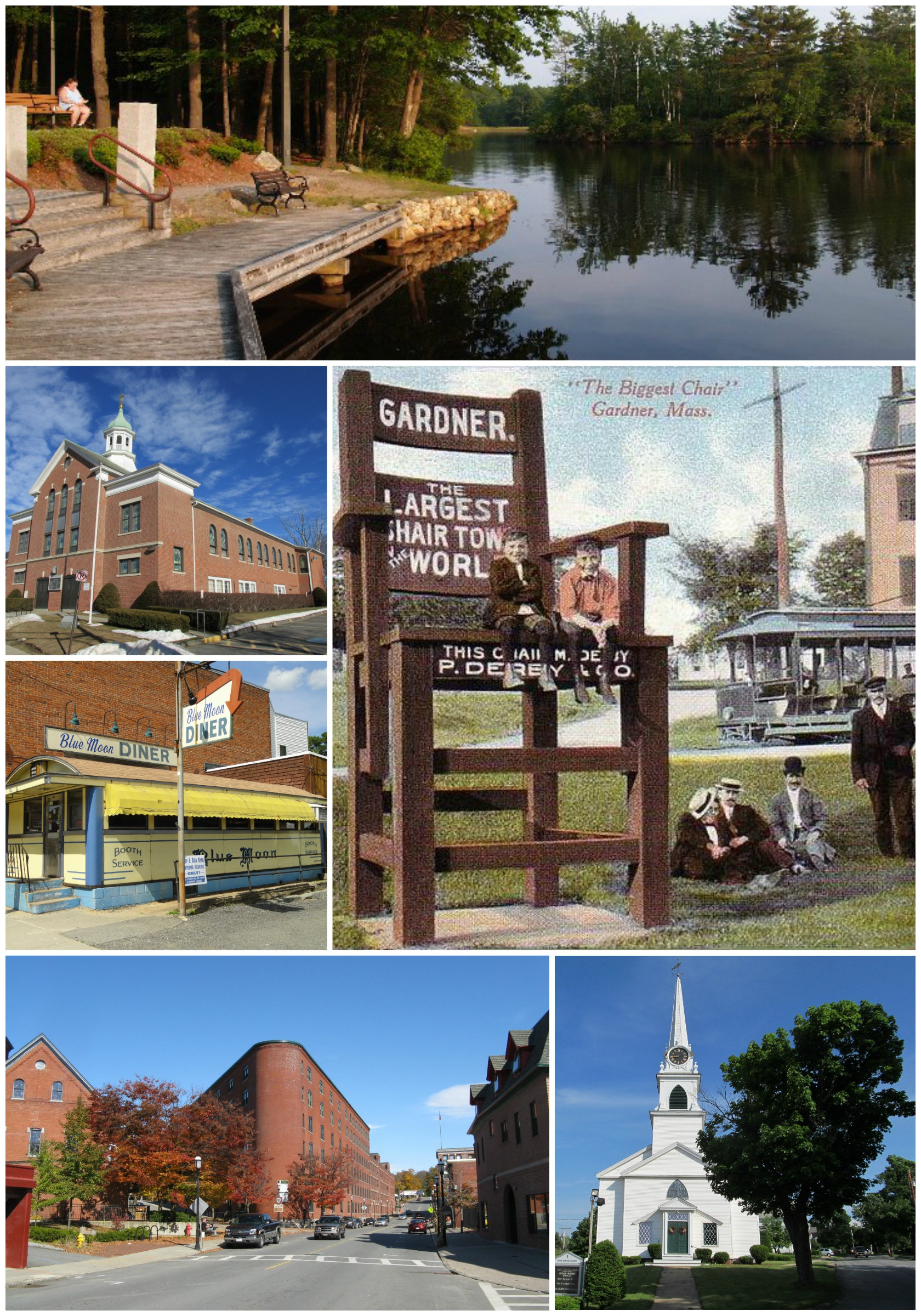 Compiled from